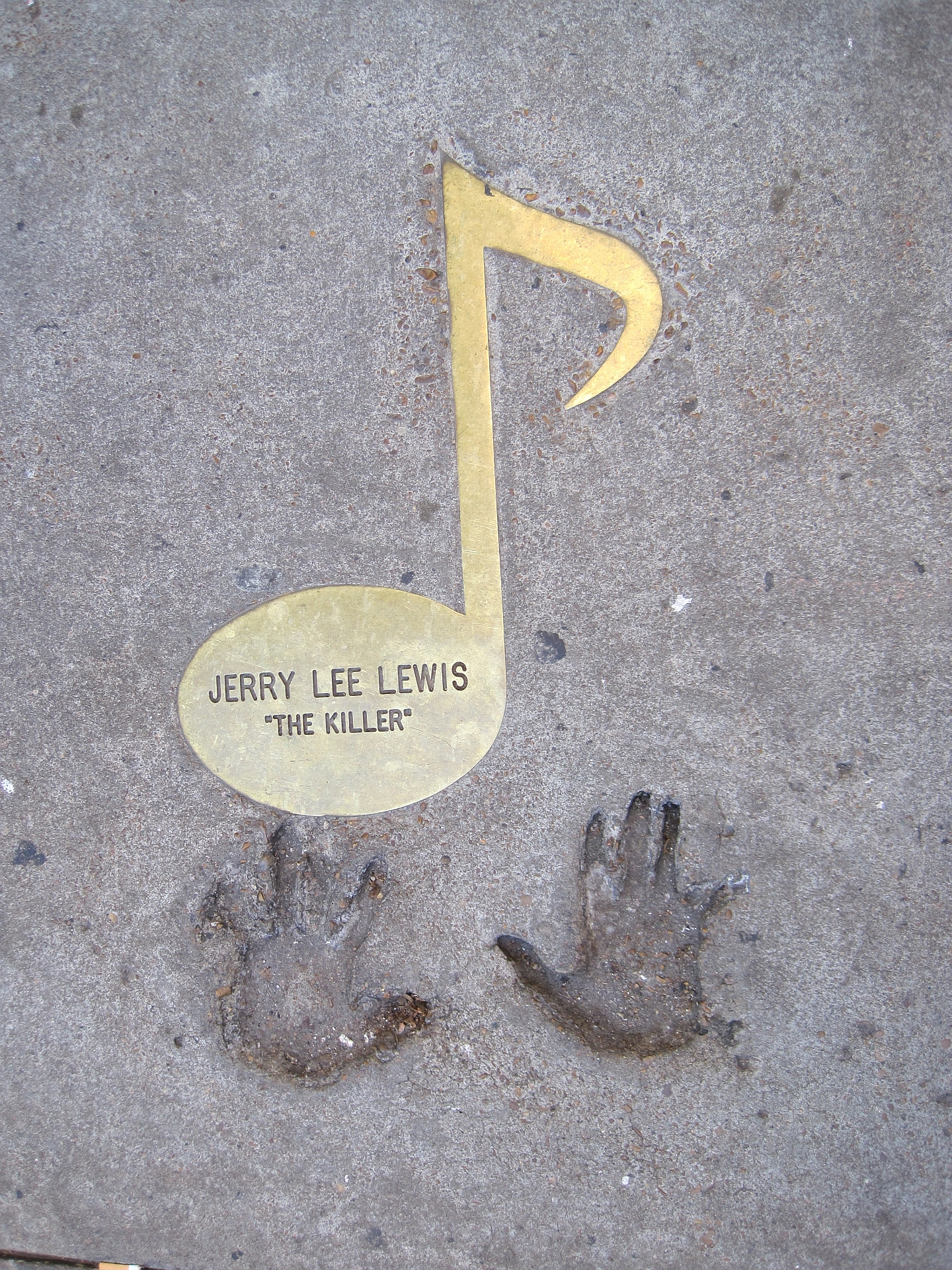 Memphis, Tennessee. Walk of Fame (Beale Street, Memphis) Jerry Lee Lewis